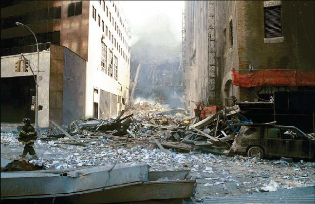 Debris from the collapse of WTC 1 located between WTC 7 (left) and the Verizon building (right).